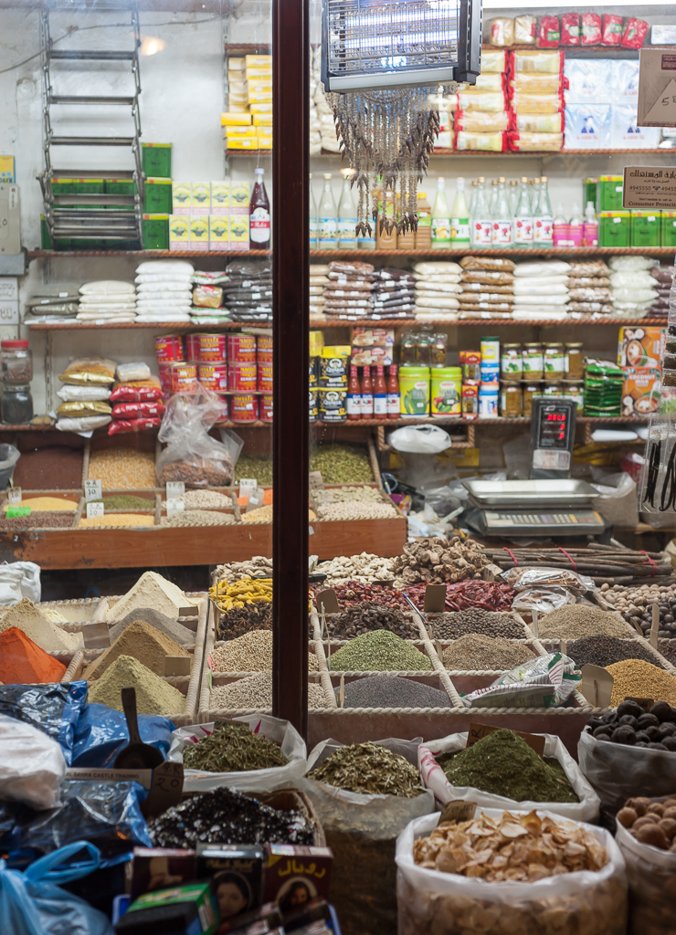 Spice shop in Souq Waqif, Doha, Qatar.